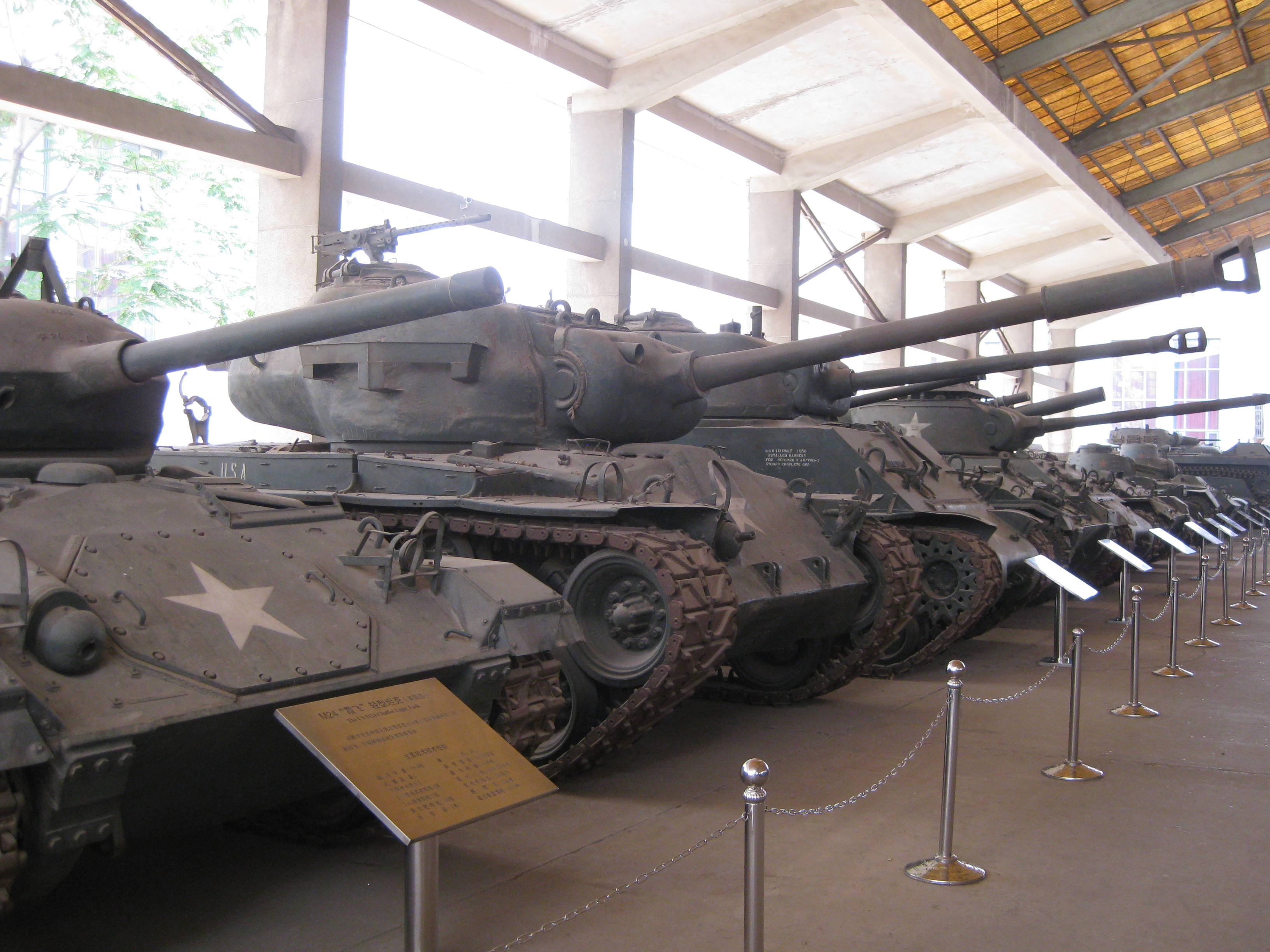 On the foreground American tanks captured during the Korean War